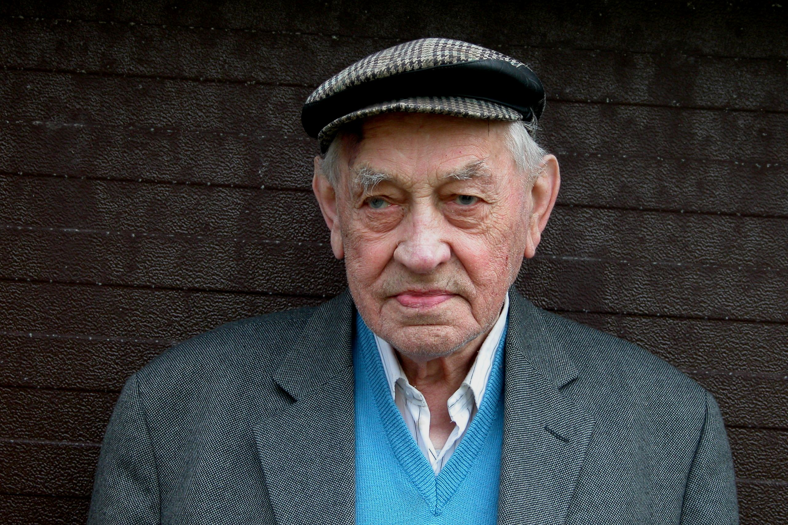 Zacharias Müller. 1910-2006